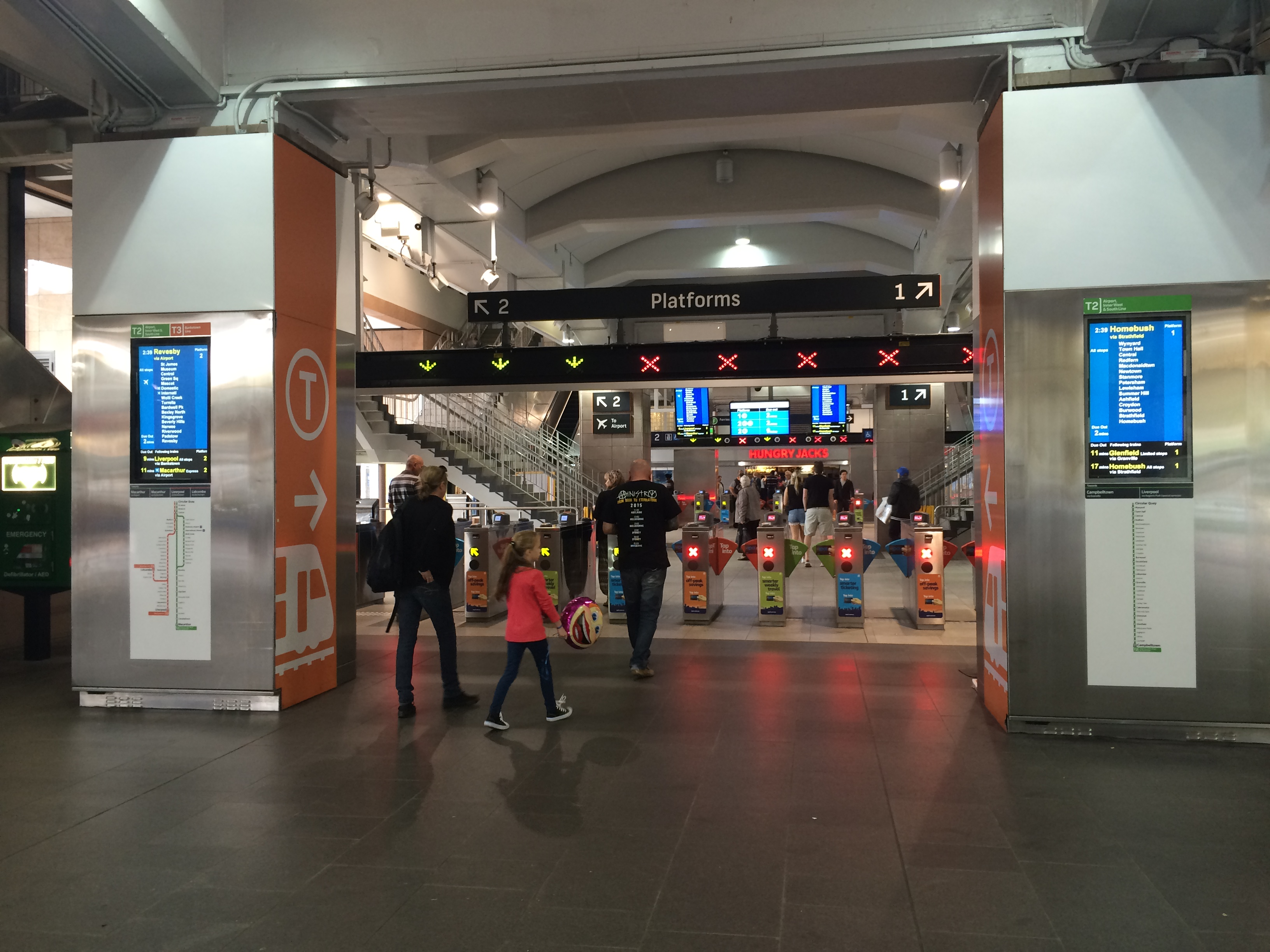 The ticket barriers at the northern entrance to the railway station at Circular Quay. Indicator boards show the next train on Platform 1 (left) and Platform 2 (right).